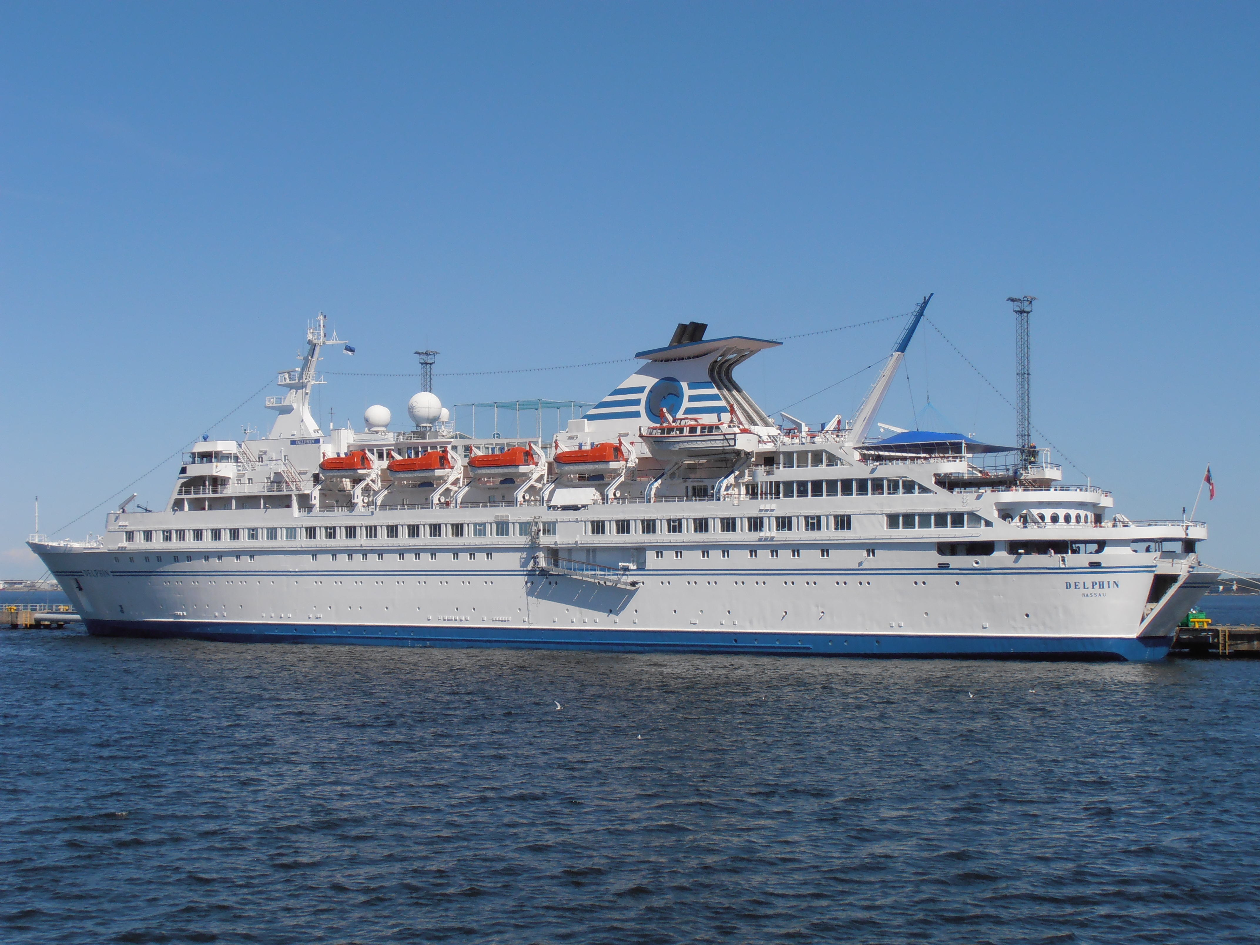 Delphin at pier 24 in Tallinn 8 May 2012